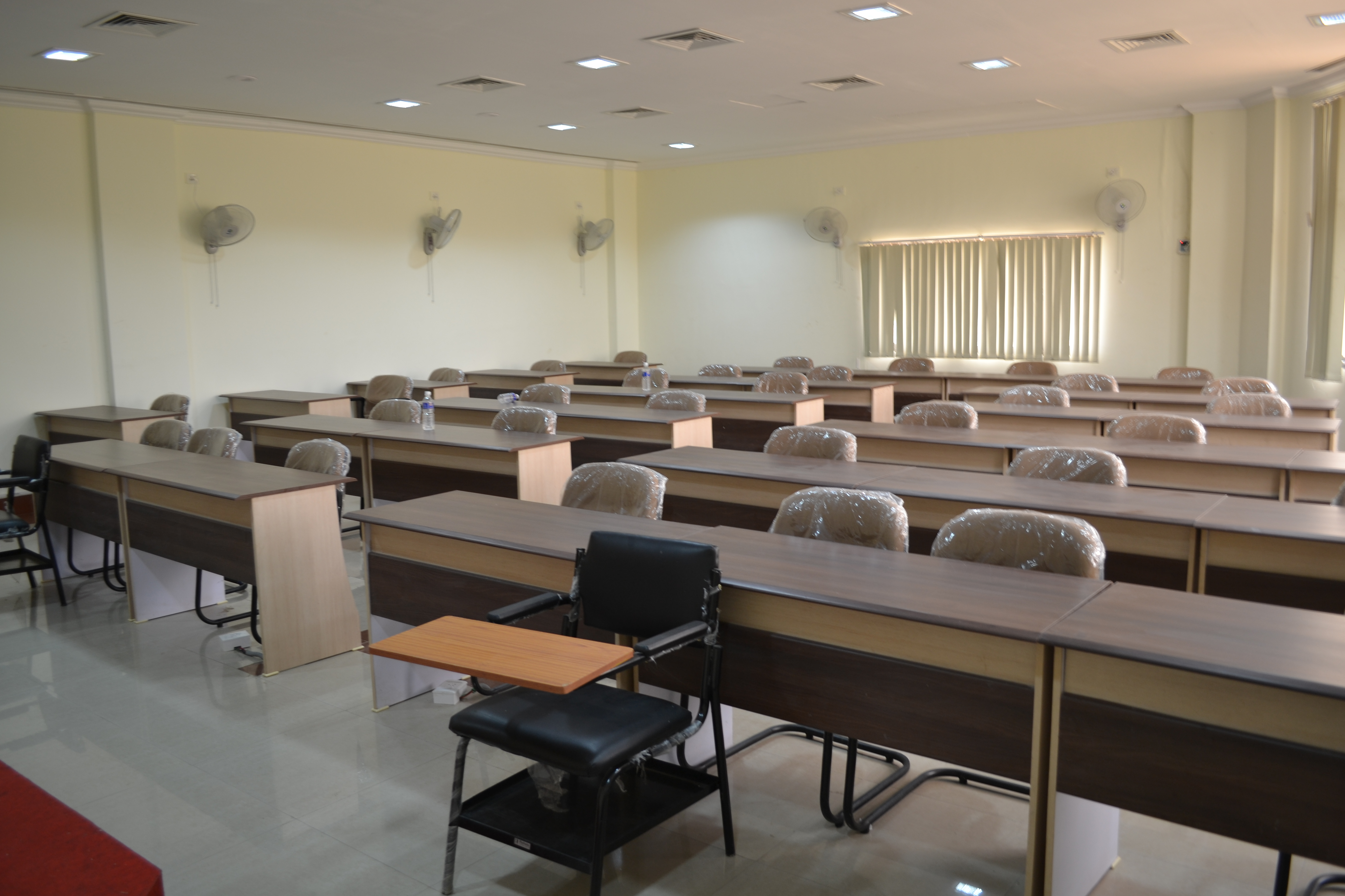 The side view of class room.